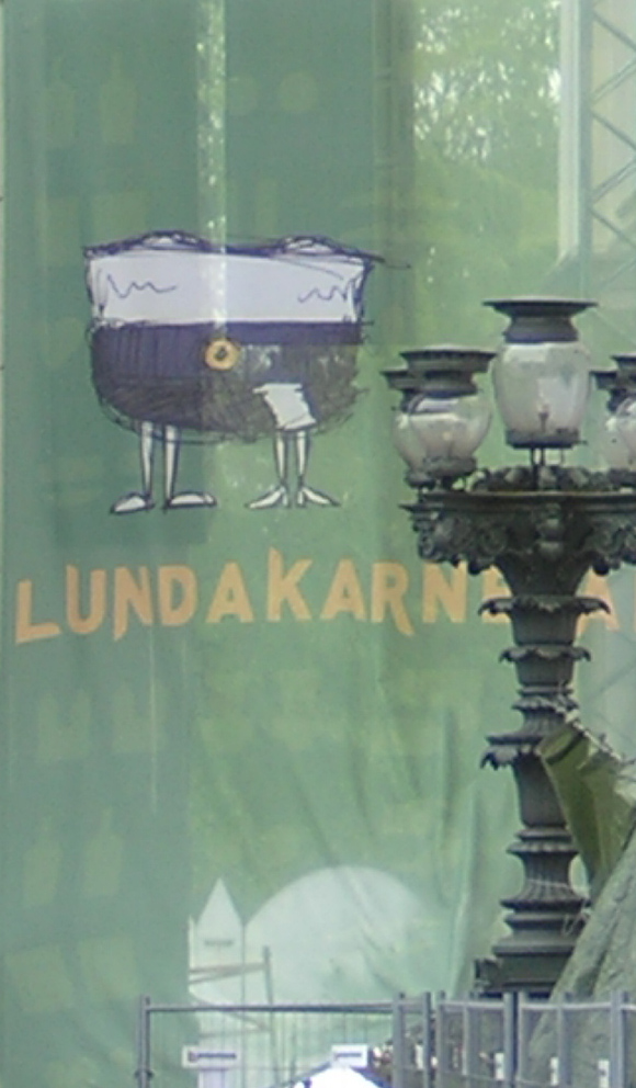 Dualkarneval, the 2006 carnival in Lund, Sweden.